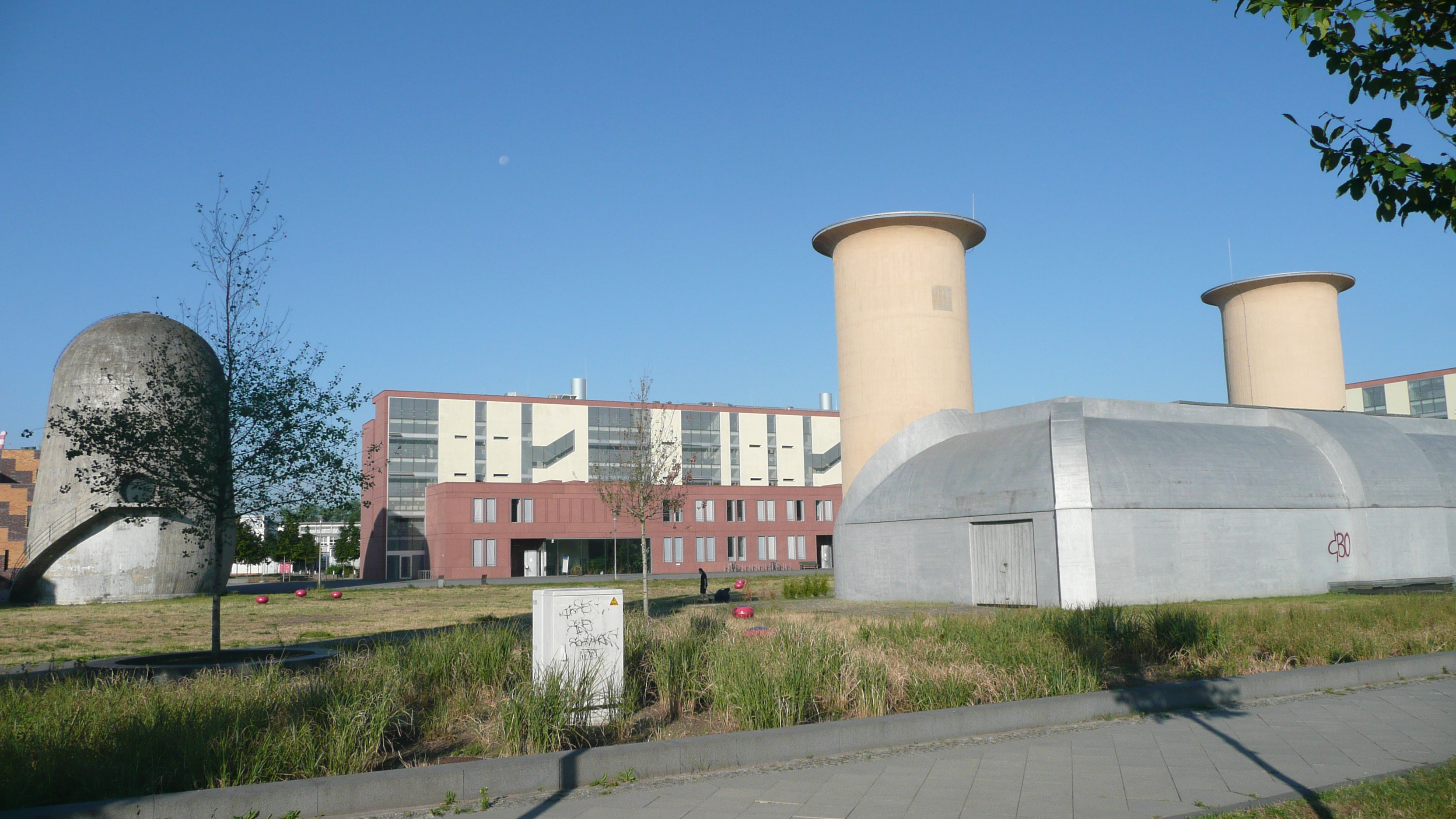 Aerodynamic park - Technical monuments - part of the technology park Berlin-Adlershof